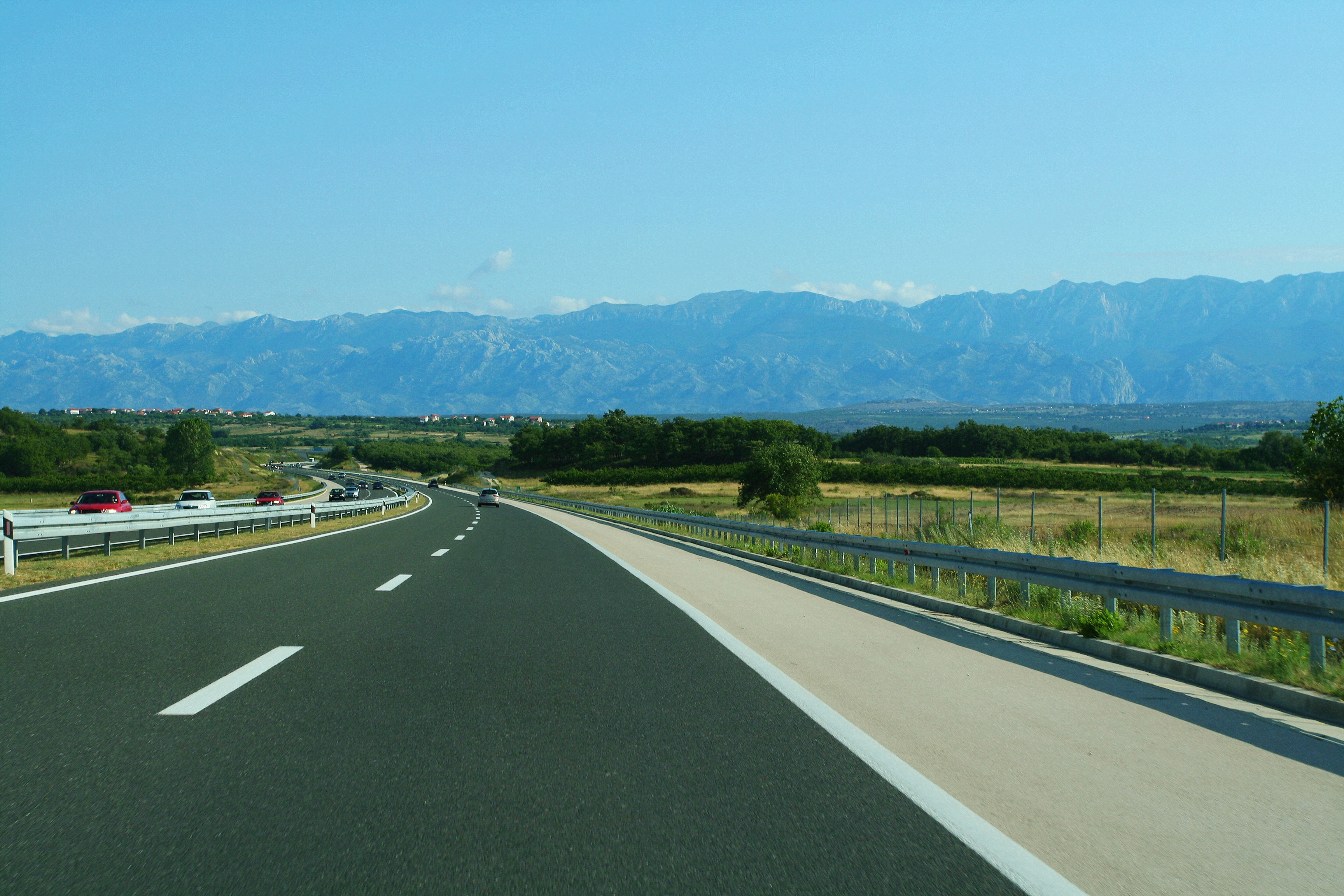 A1 motorway near by Posedarje. Velebit mountains on background.